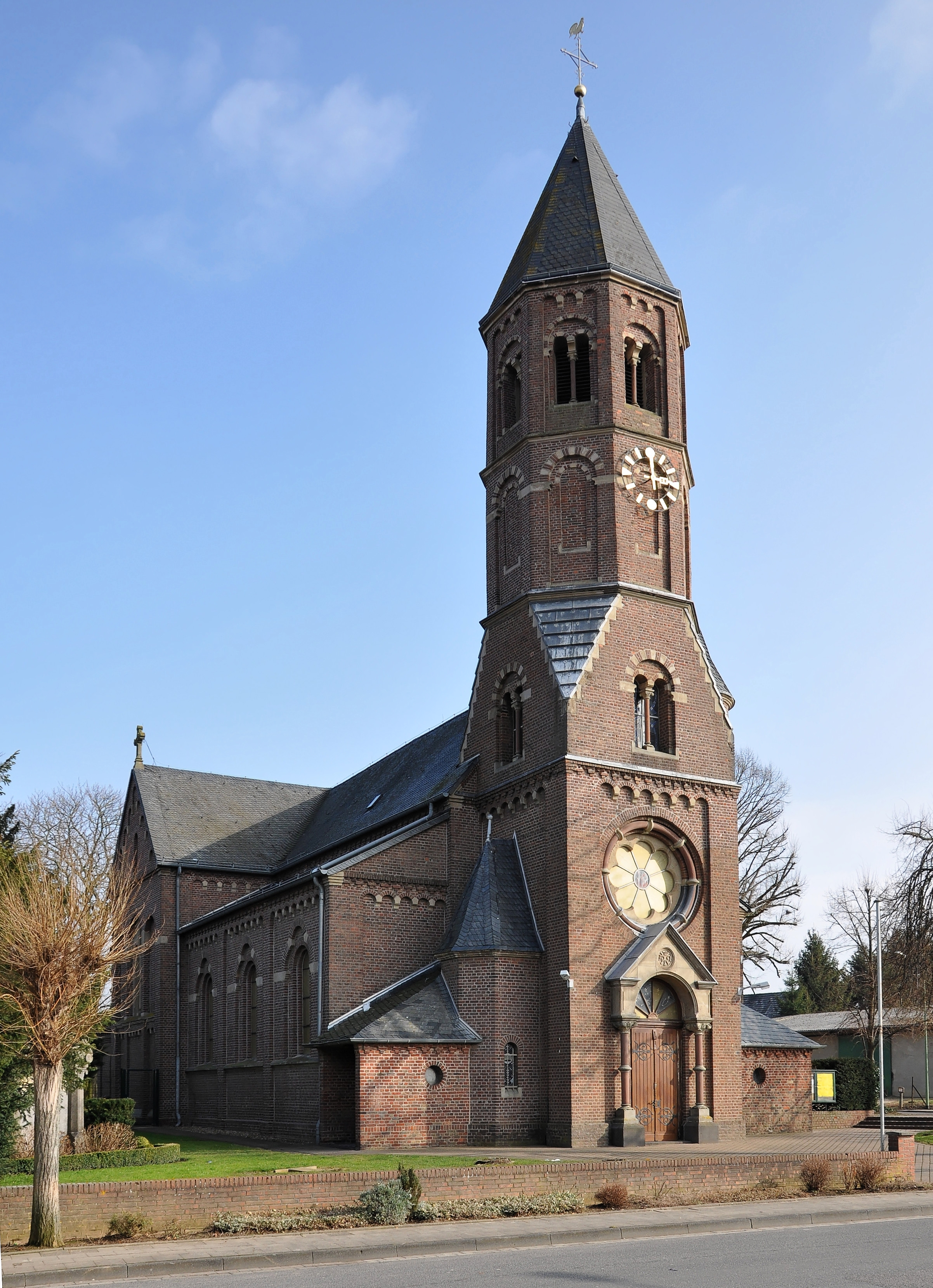 Wissersheim, Germany: St. Martinus